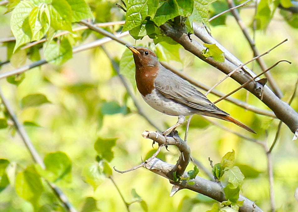 Red-throated thrush (Turdus ruficollis) in Nepal.